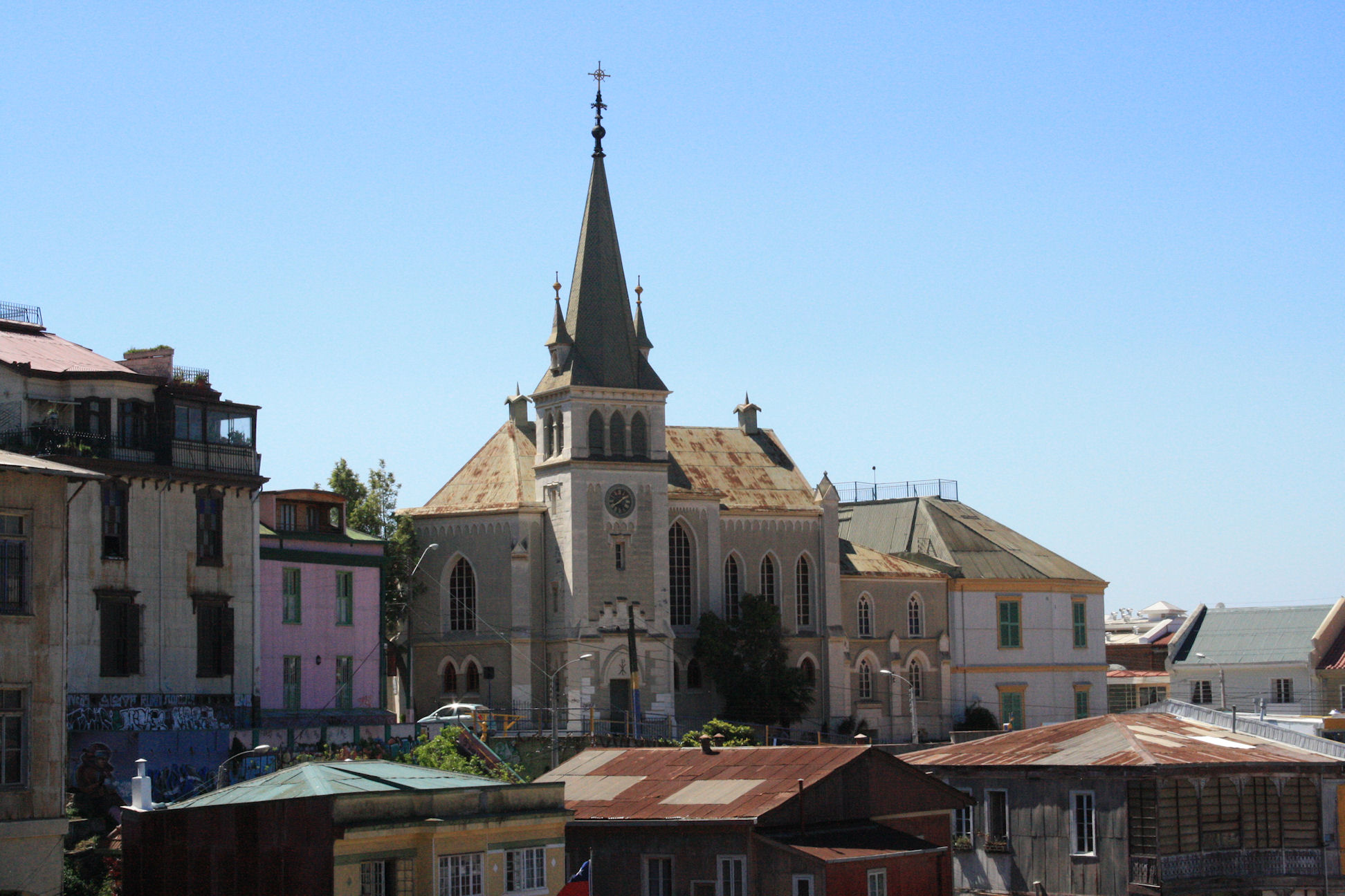 The Lutheran church in Valparaíso was concecrated in 1897. This is the view from Plaza San Luis, Cerro Concepcion.